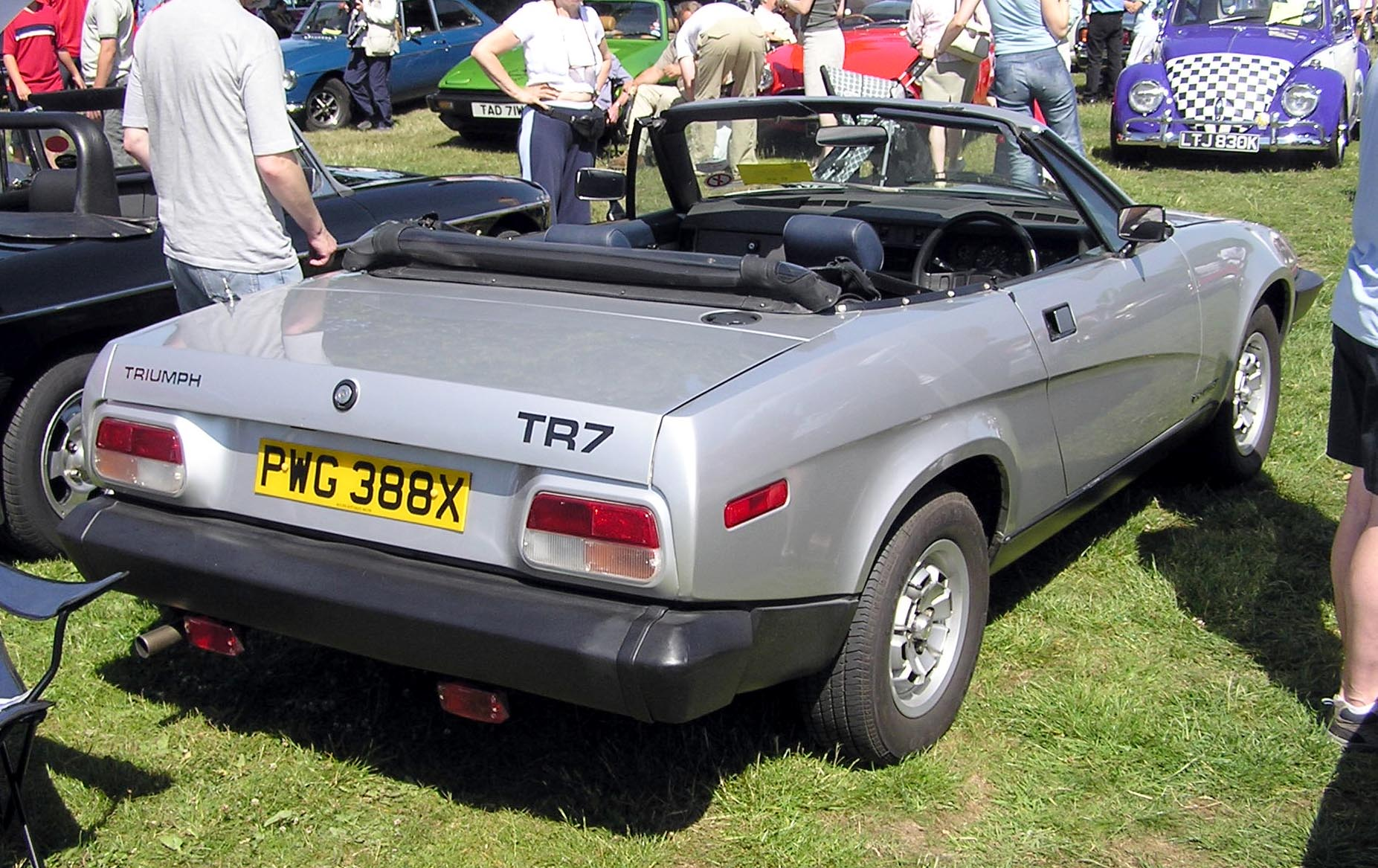 1981 Triumph TR7 at Bristol Car Show, The Downs, Bristol, England.